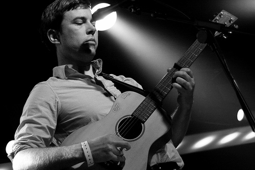 Bill Callahan performing at ATP, April 07